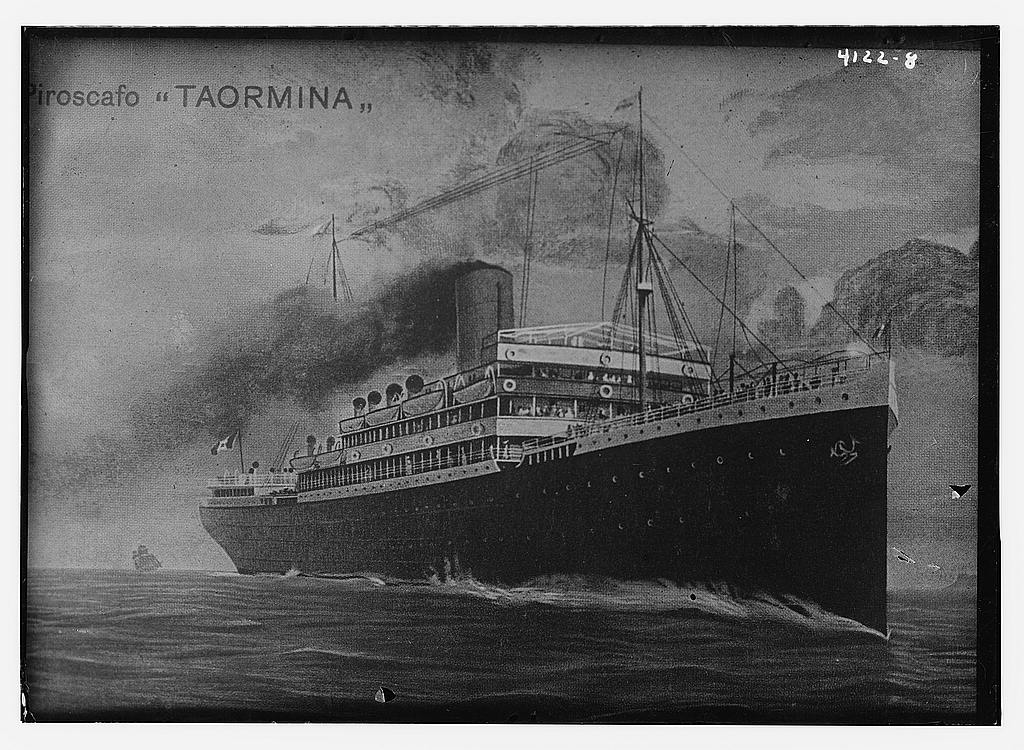 Bain News Service,, publisher. Piroscafo TAORMINA [between ca. 1915 and ca. 1920] 1 negative : glass ; 5 x 7 in. or smaller. Notes: Title from unverified data provided by the Bain News Service on the negatives or caption cards. Forms part of: George Grantham Bain Collection (Library of Congress). Format: Glass negatives. Repository: Library of Congress, Prints and Photographs Division, Washington, D.C. 20540 USA, General information about the Bain Collection is available at Higher resolution image is available (Persistent URL): Call Number: LC-B2- 4122-8